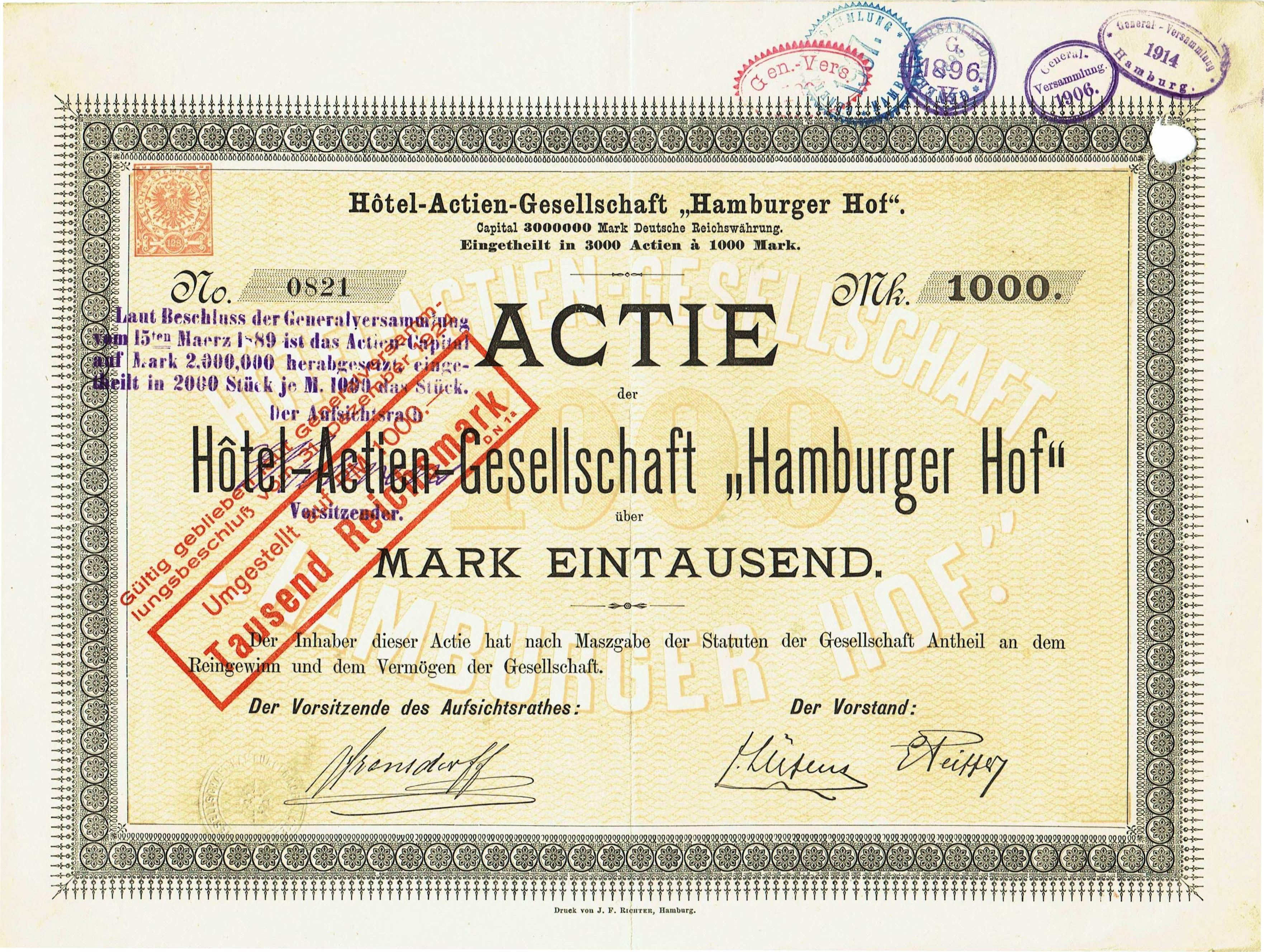 Share of the Hotel-AG "Hamburger Hof", issued 1881